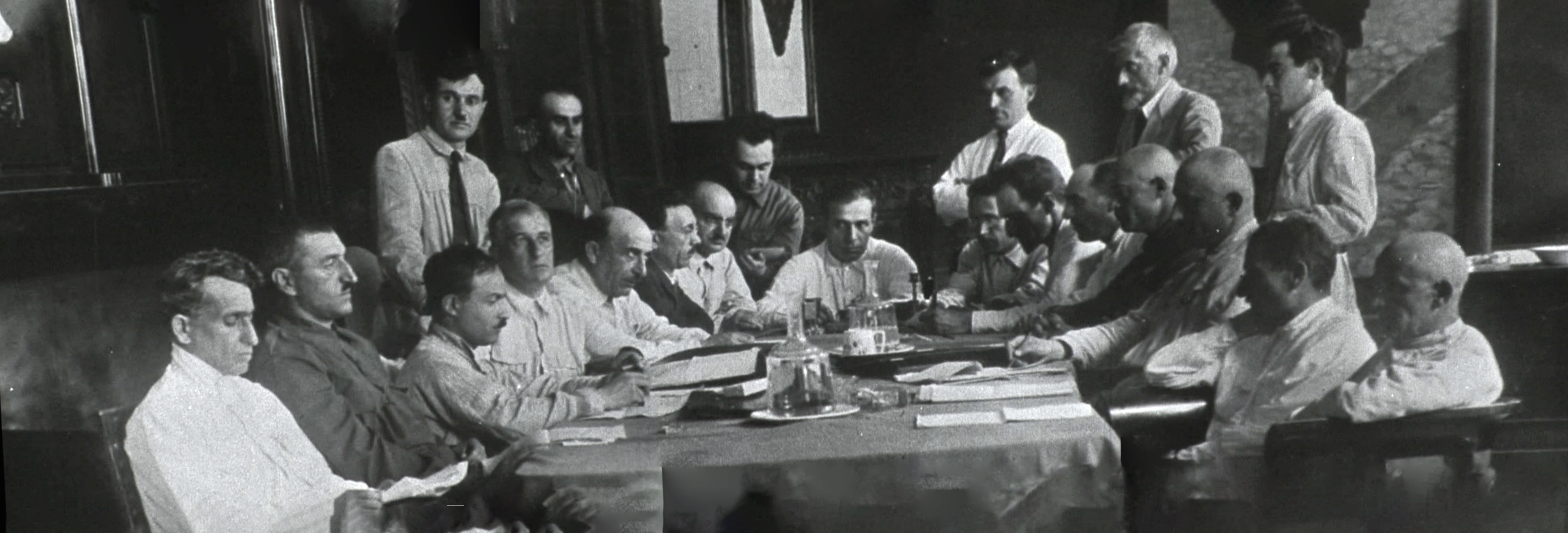 Meeting at Sargis Lukashin office, attended by Aleksander Tamanyan